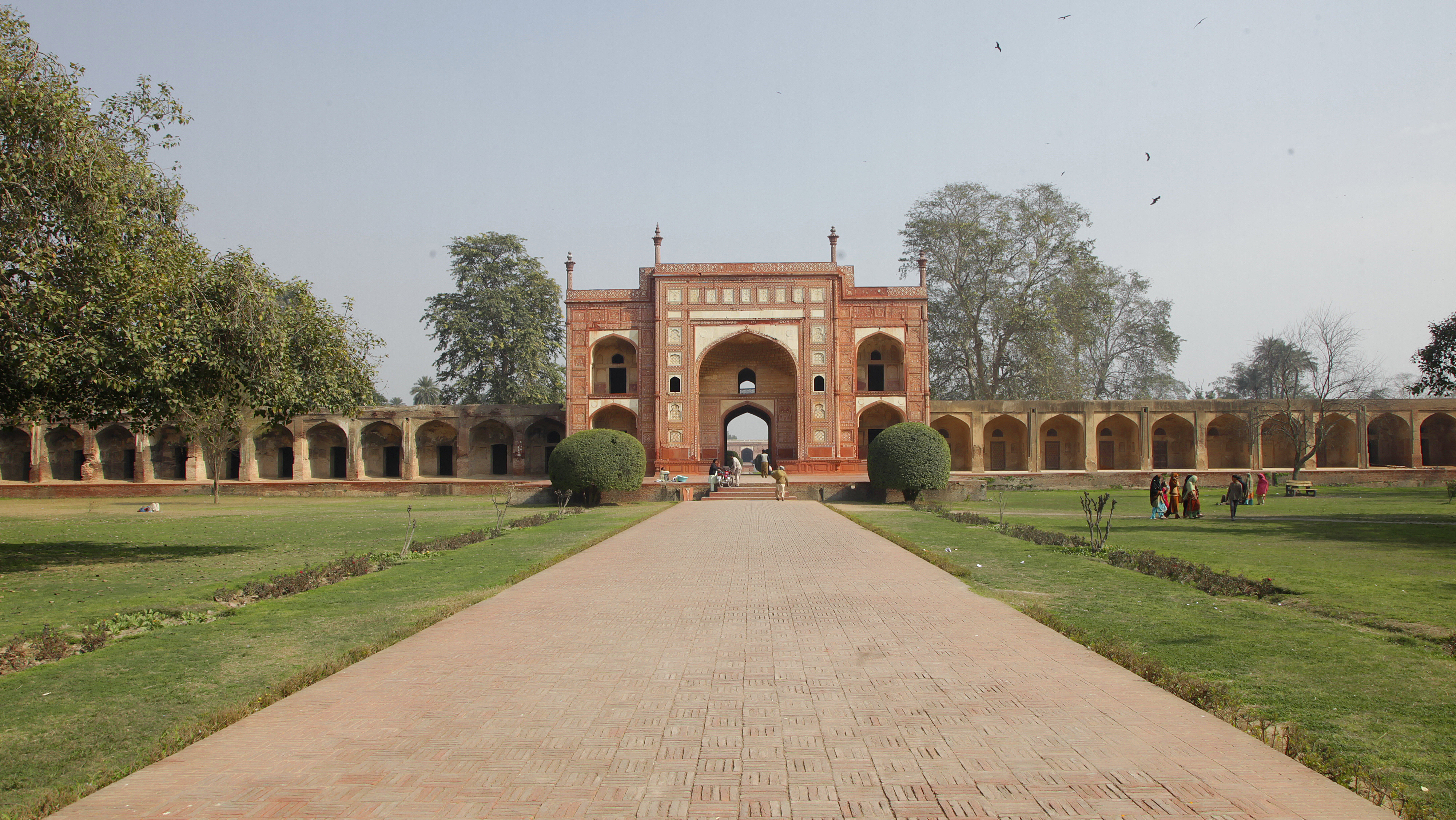 Akbari Sarai This is a photo of a monument in Pakistan identified as the PB-40